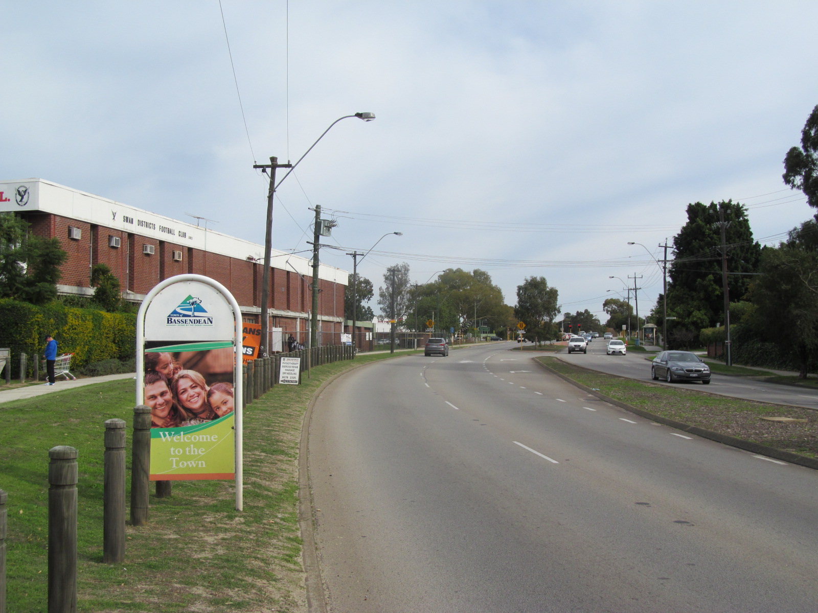 Town of Bassendean - welcome sign - Guildford Road, Bassendean, Western Australia, near Bassendean Oval.